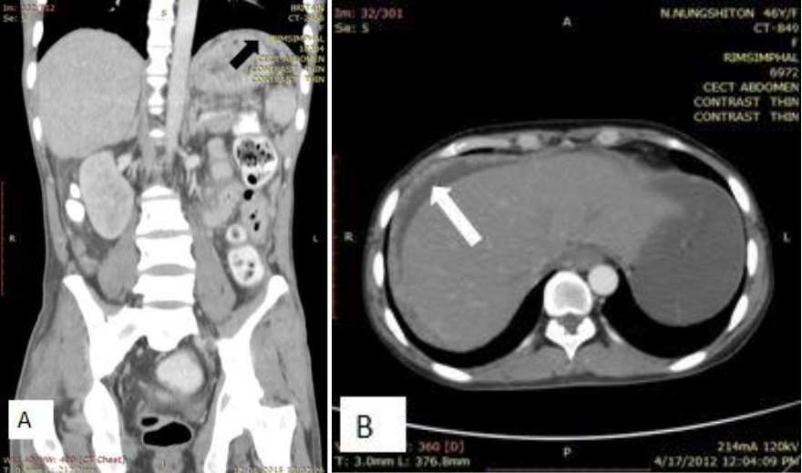 CT of peritoneal carcinomatosis with subdiaphragmatic plaque. For context, see Peritoneal carcinomatosis.